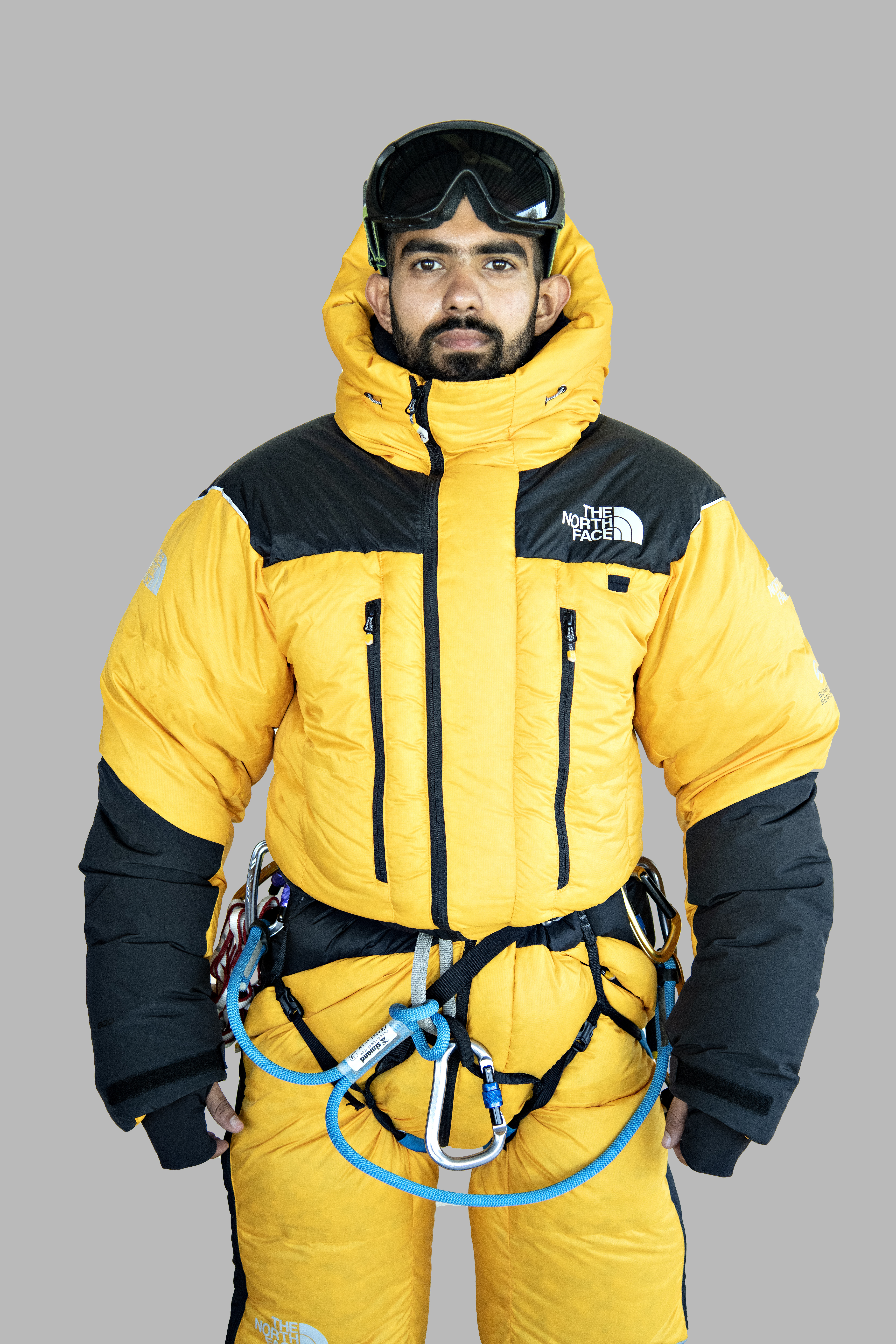 Photo